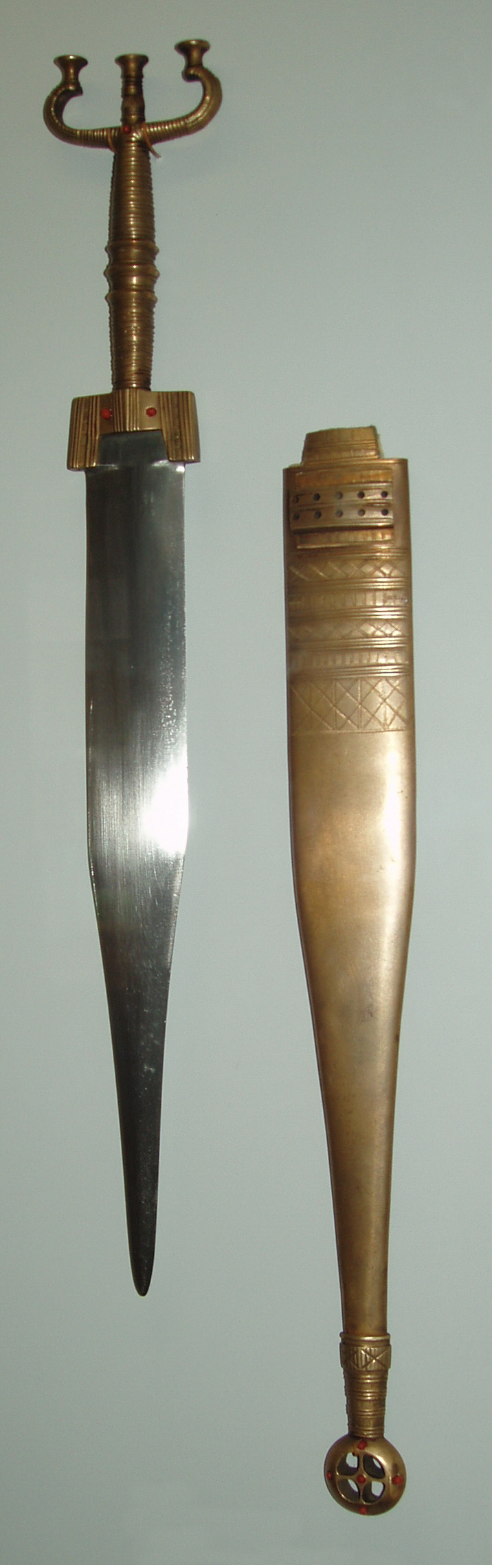 Celtic dagger and sheath made of iron and bronze, found in the grave of a celtic prince in Hochdorf, Germany. Some corals as dcecoration are on the hilt and on the sheath. The dagger has a length of around 42 cm (16.5").